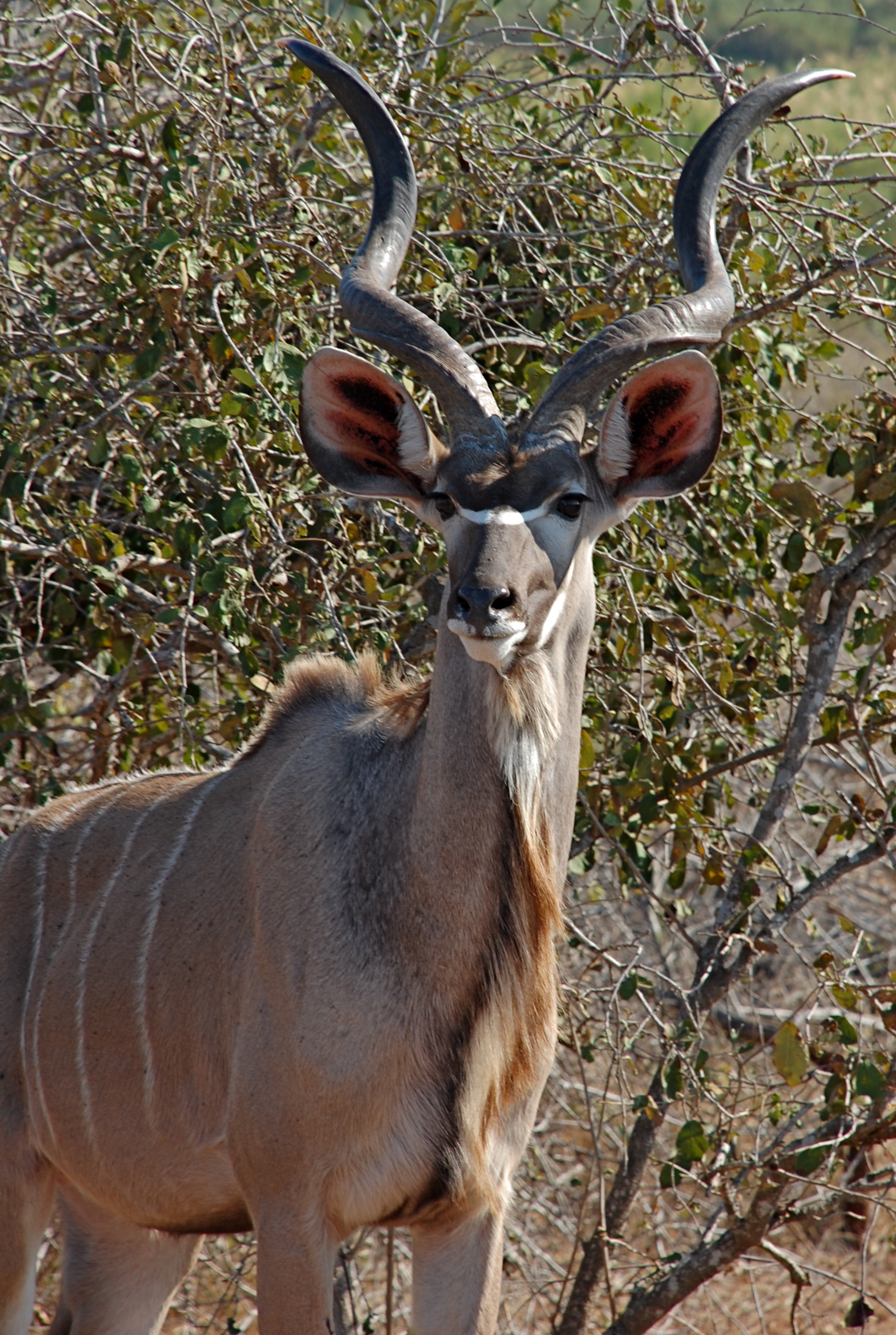 Male Greater Kudu, Kruger National Park, South Africa